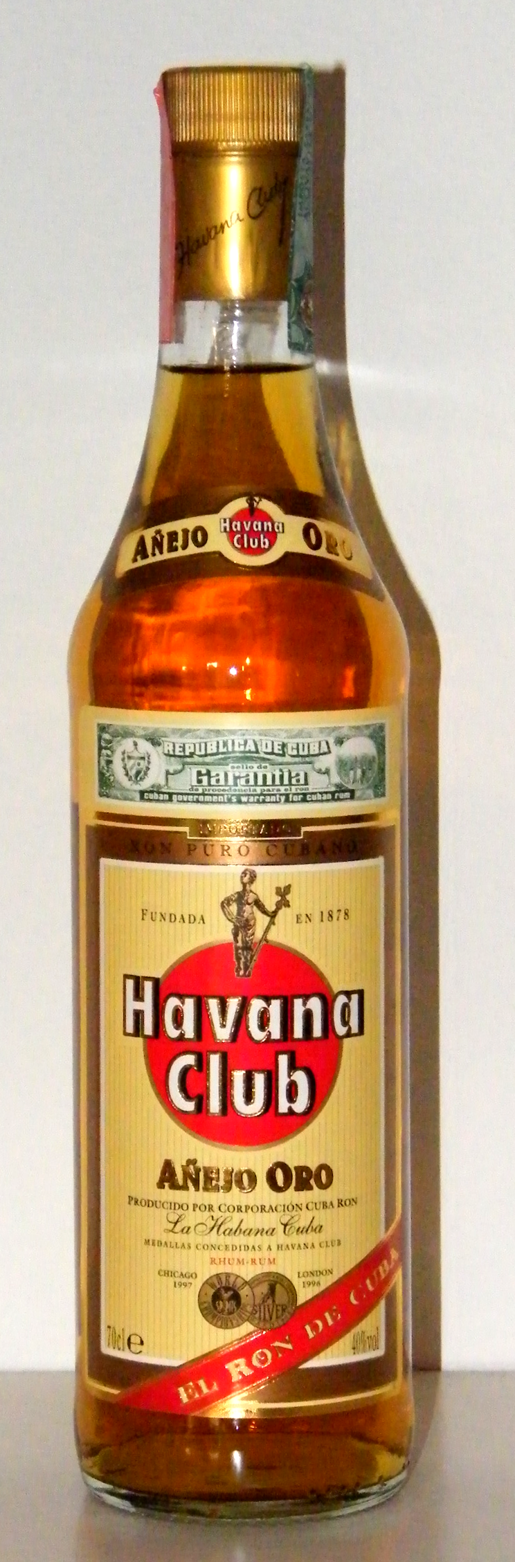 Bottle of cuban rum "Havana Club - Anejo Oro"